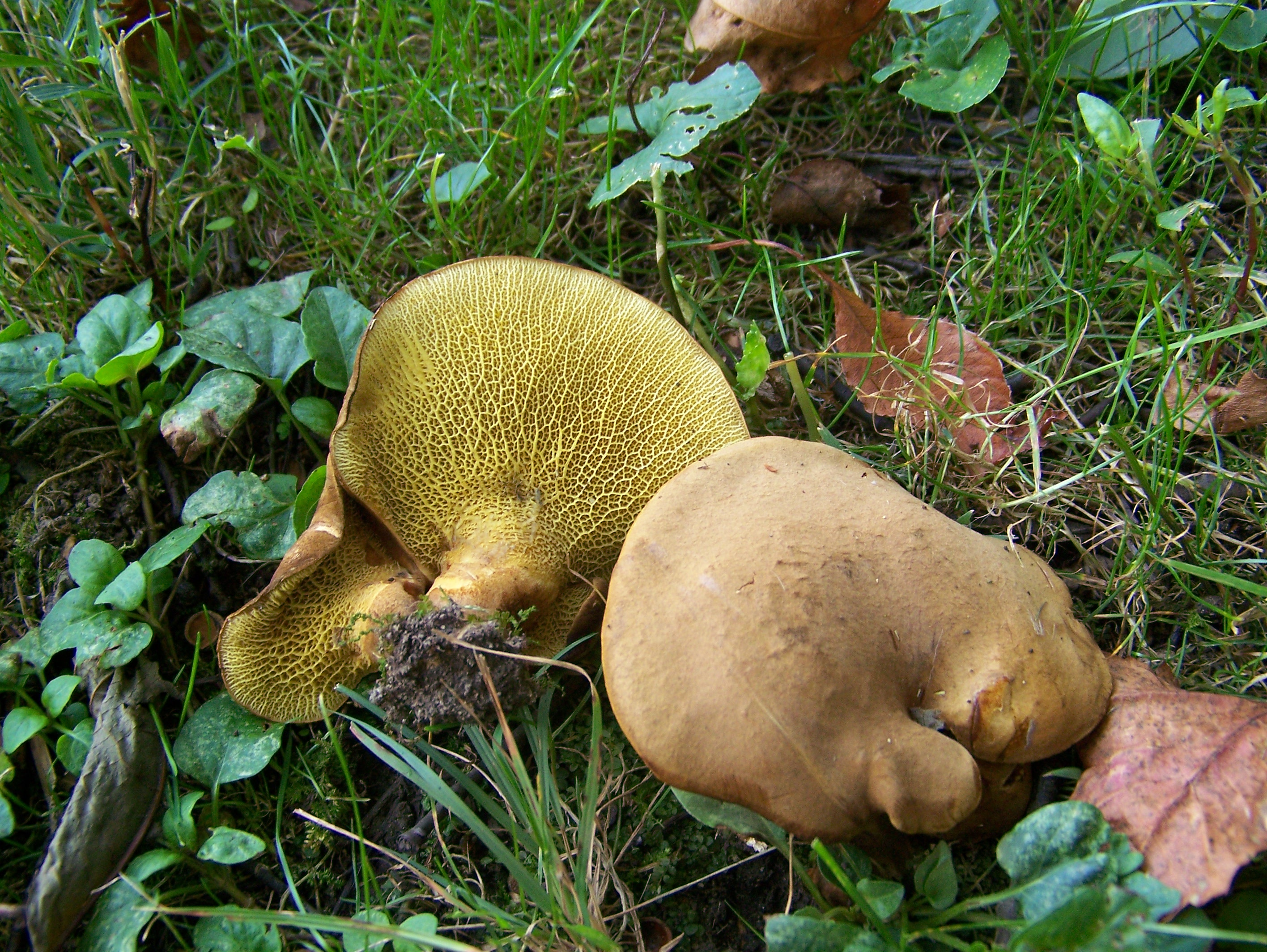 Fruit bodies of the fungus Boletinellus merulioides (Schwein.) Murrill. Specimens photographed in Westmoreland County, PA, USA.